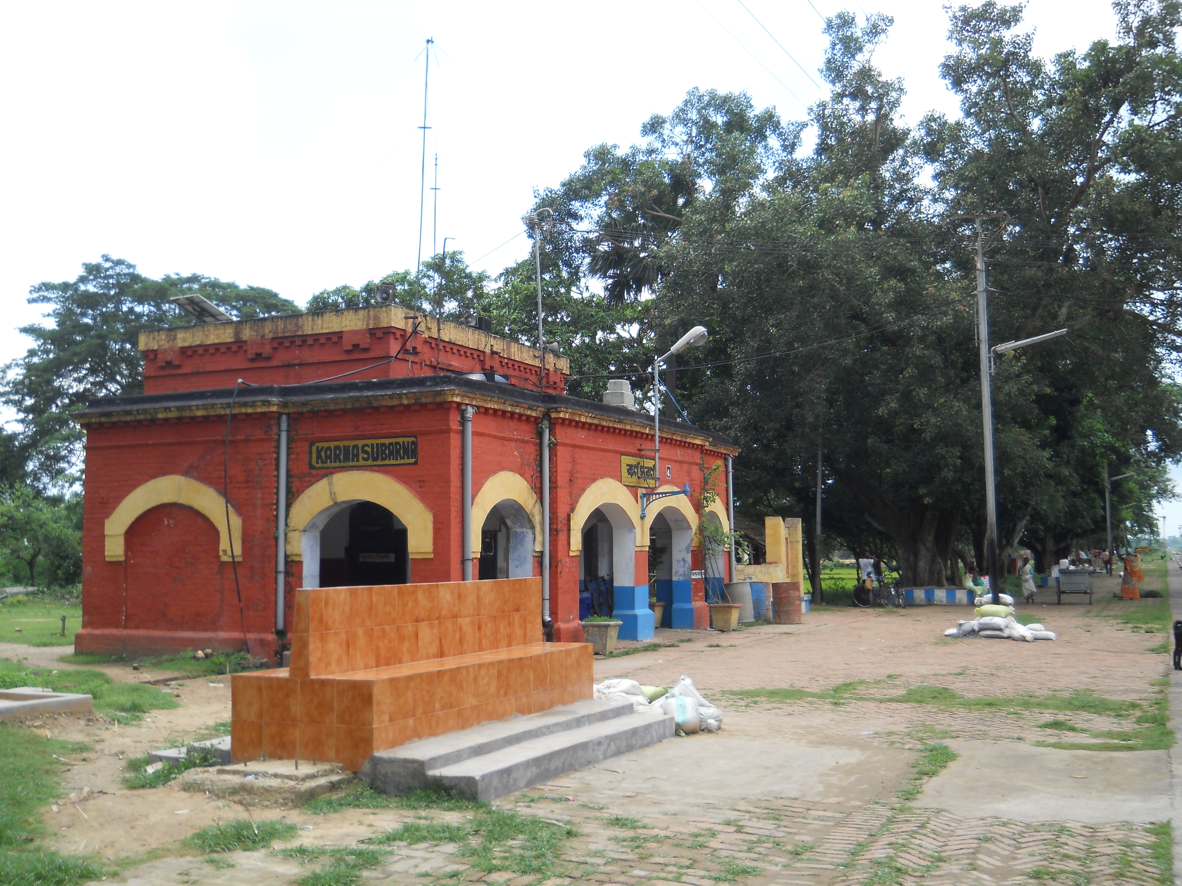 Karnasubarna Railway Station, Murshidabad, West Bengal